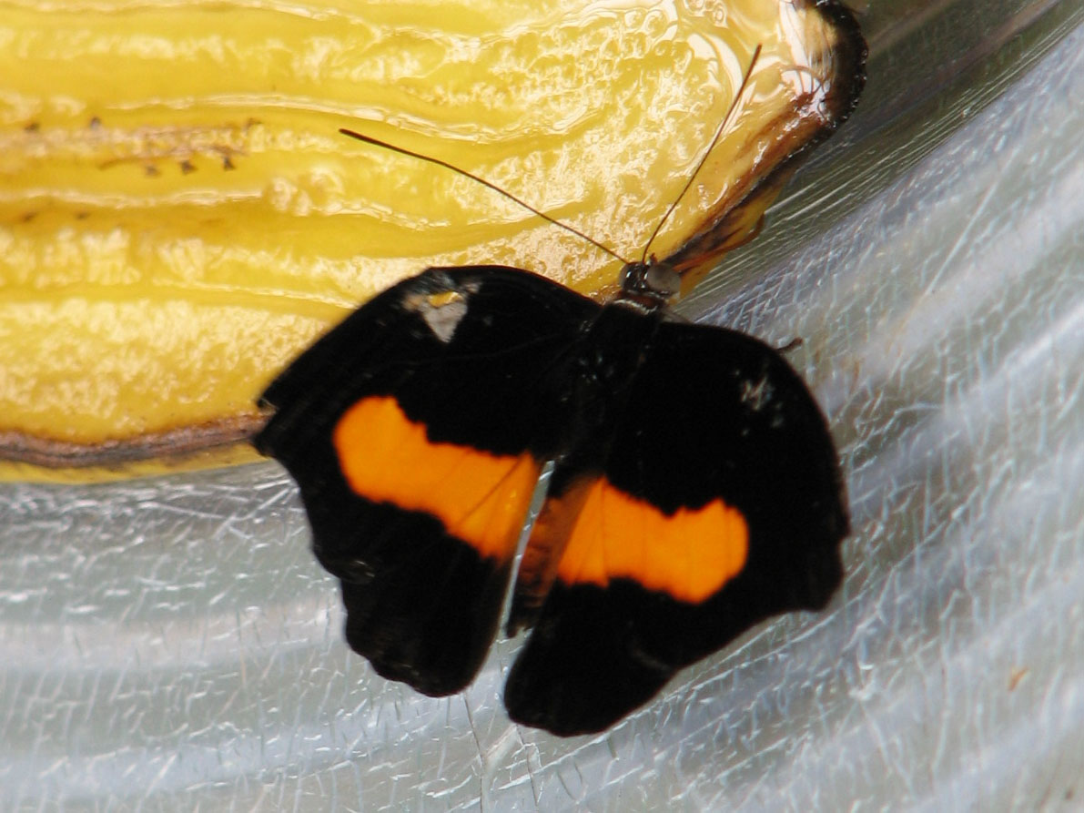 Image taken at Butterfly World catonephele orites